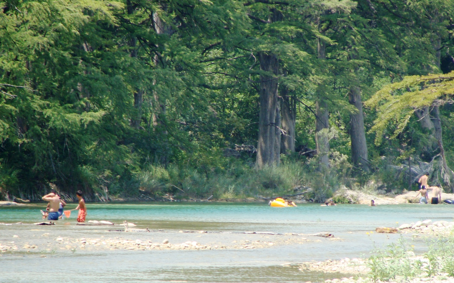 Frio River @ Garner State Park, Texas